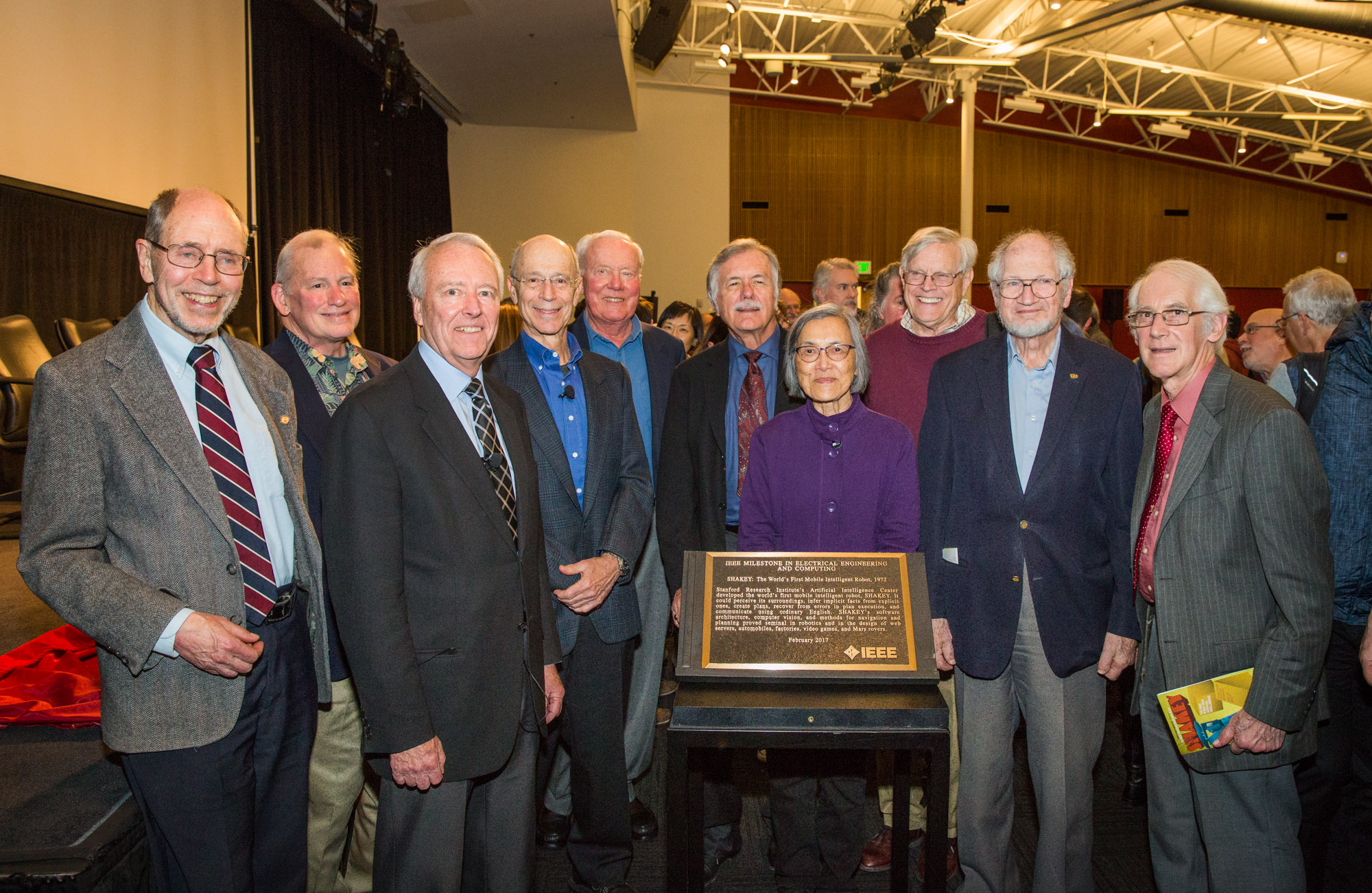 Helen Chan Wolf? at centre in purple. This was taken at the Computer History Museum at the dedication of the IEEE plaque commemorating the development of Shakey, the world's first mobile intelligent robot